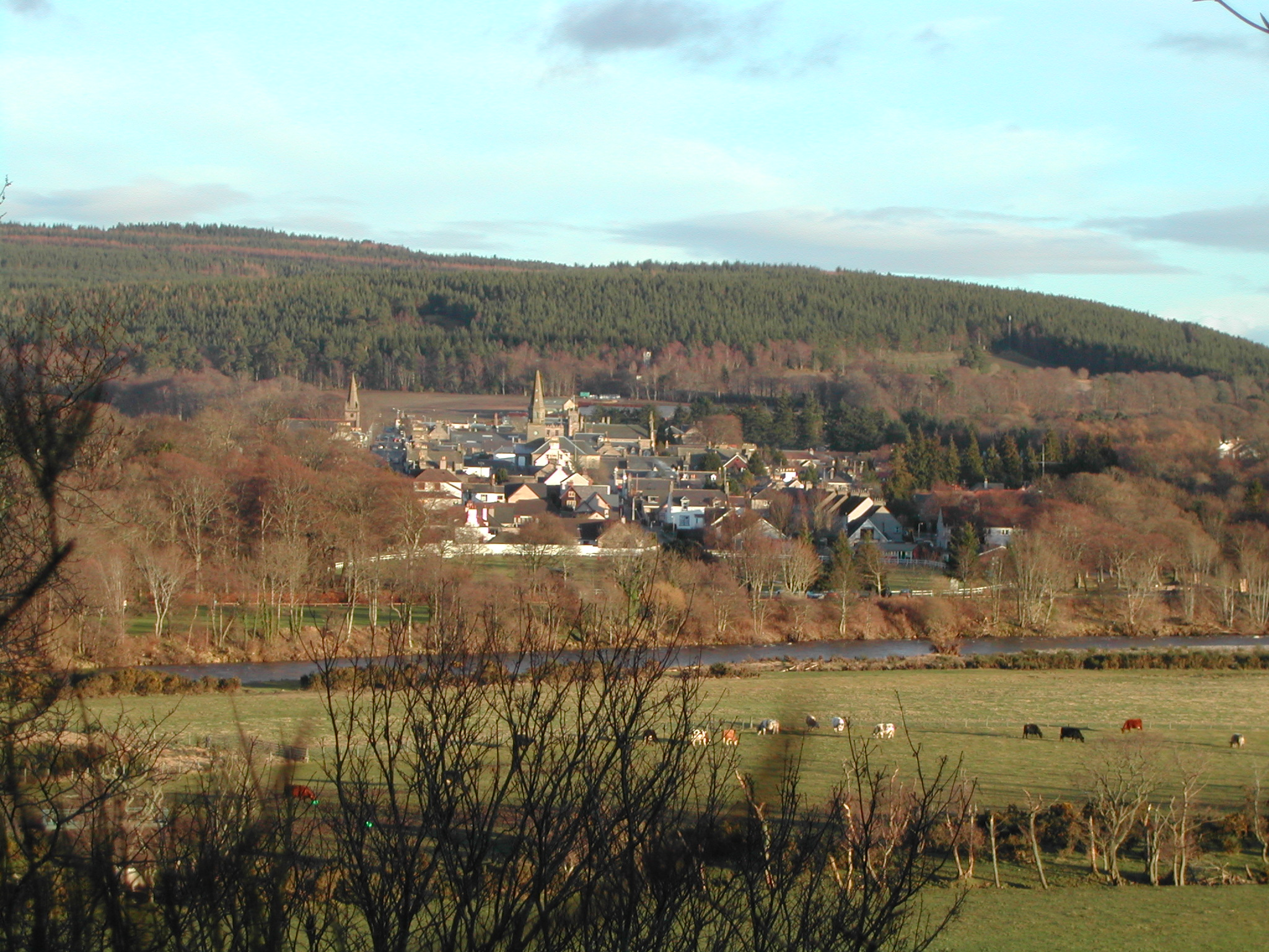 Fochabers village, beside the River Spey. Gàidhlig: Fachabair.